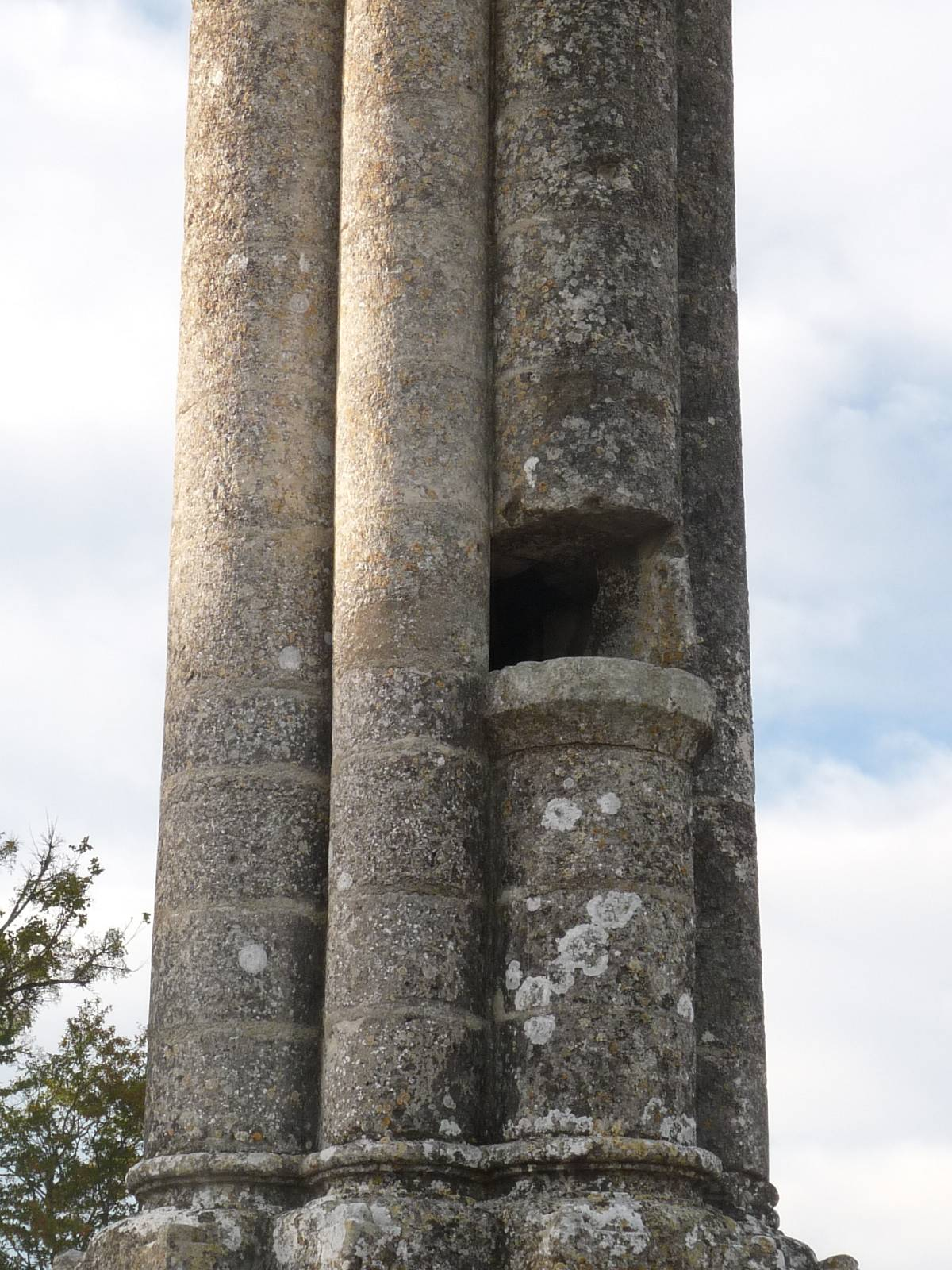 lantern of the deaths of Cellefrouin, Charente, SW France